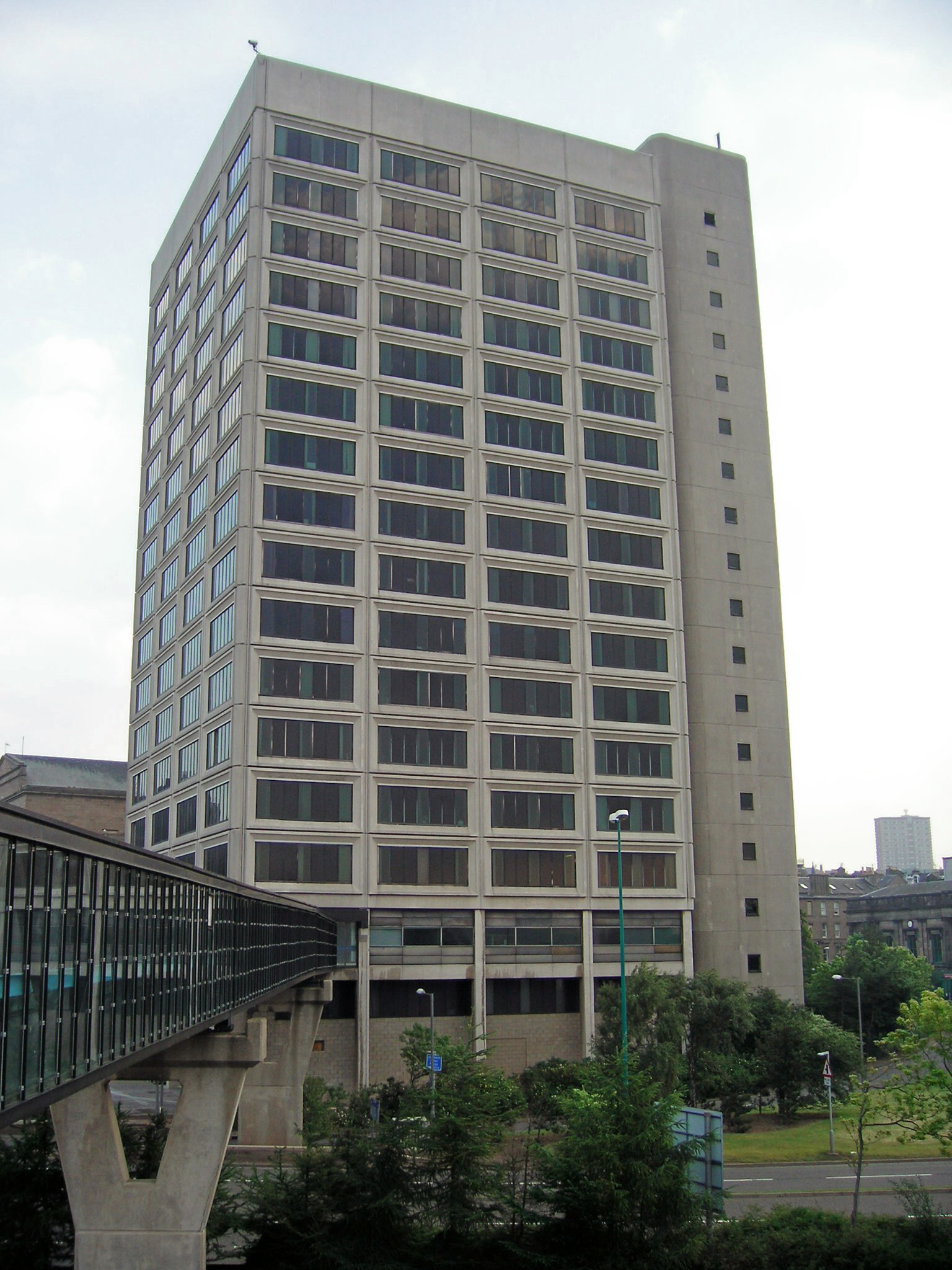 Tayside House, Home of Dundee city council